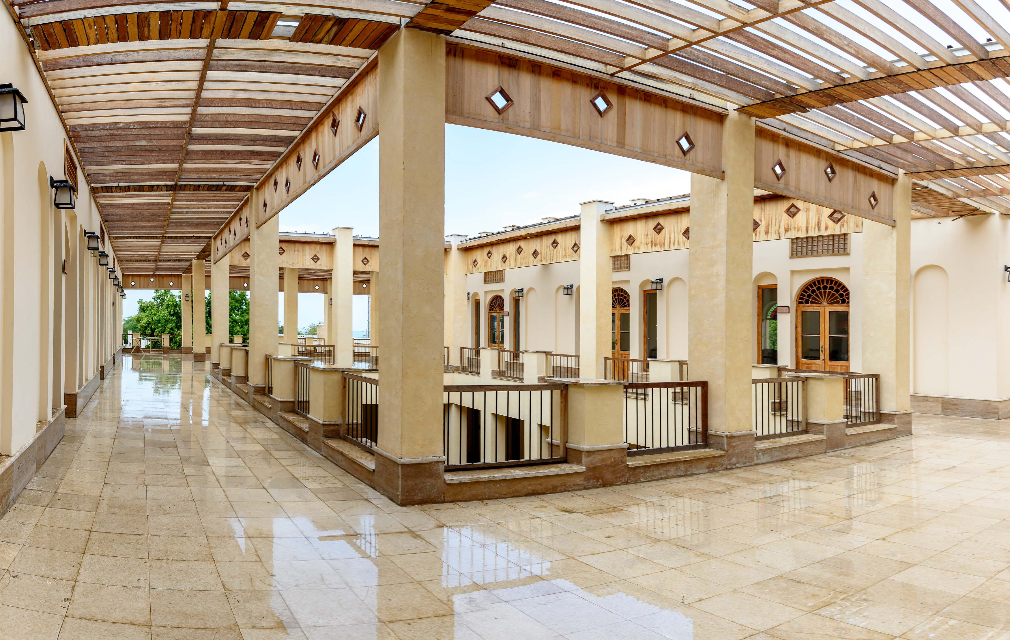 second floor school of architecture persian gulf university